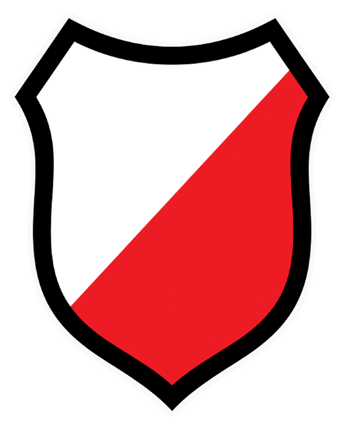 Polonia Warsaw logo